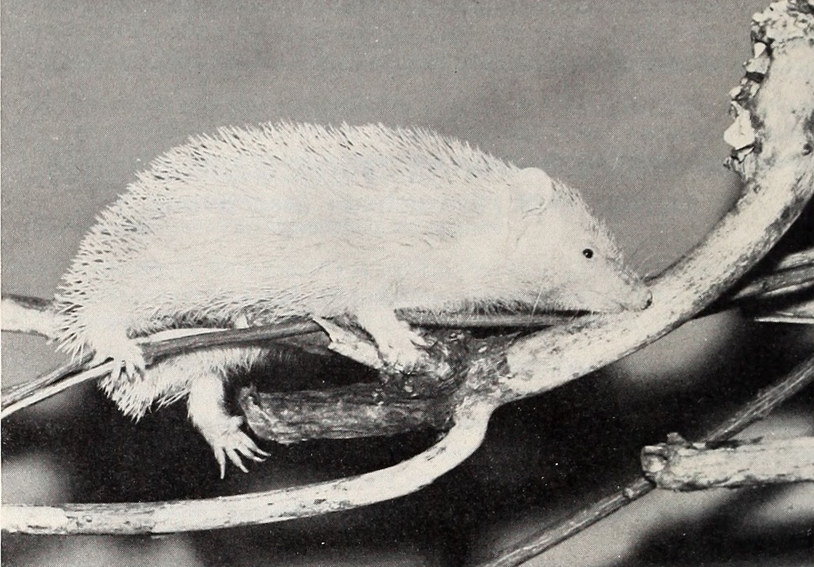 climbing Lesser Hedgehog tenrec (Echinnops telfairi)